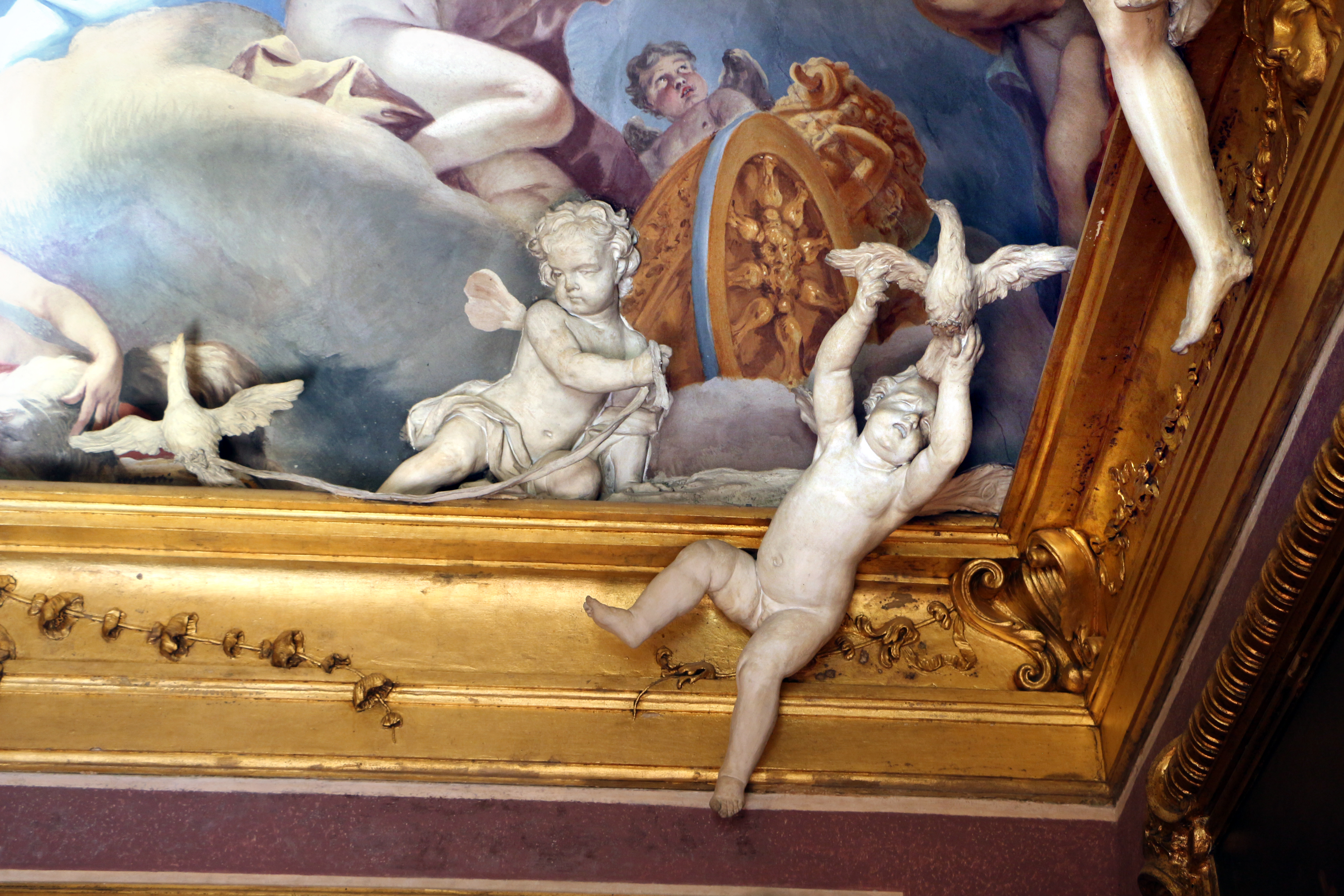 Sala della Giovinezza al Bivio in Palazzo Fenzi